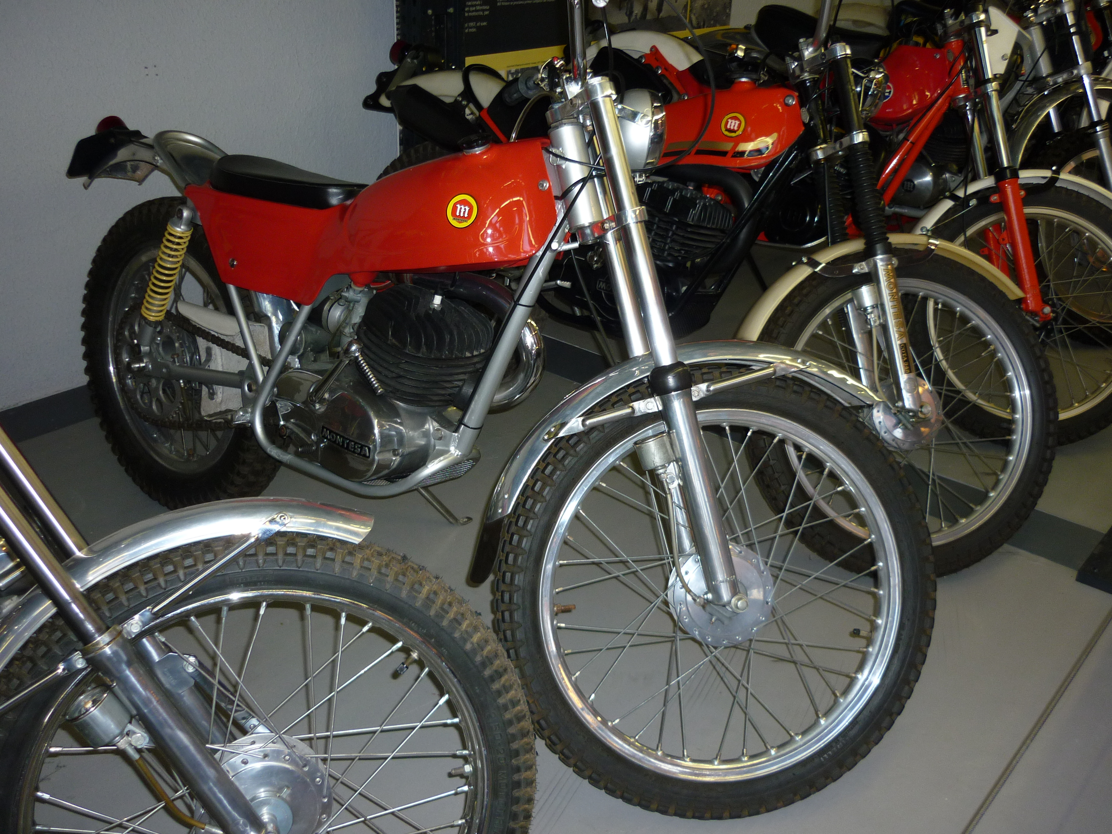 Montesa Cota 247 (around 1971)